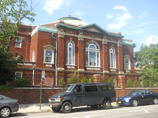 Flushing Free Synagogue on Kissena Blvd & Sanford Avenue